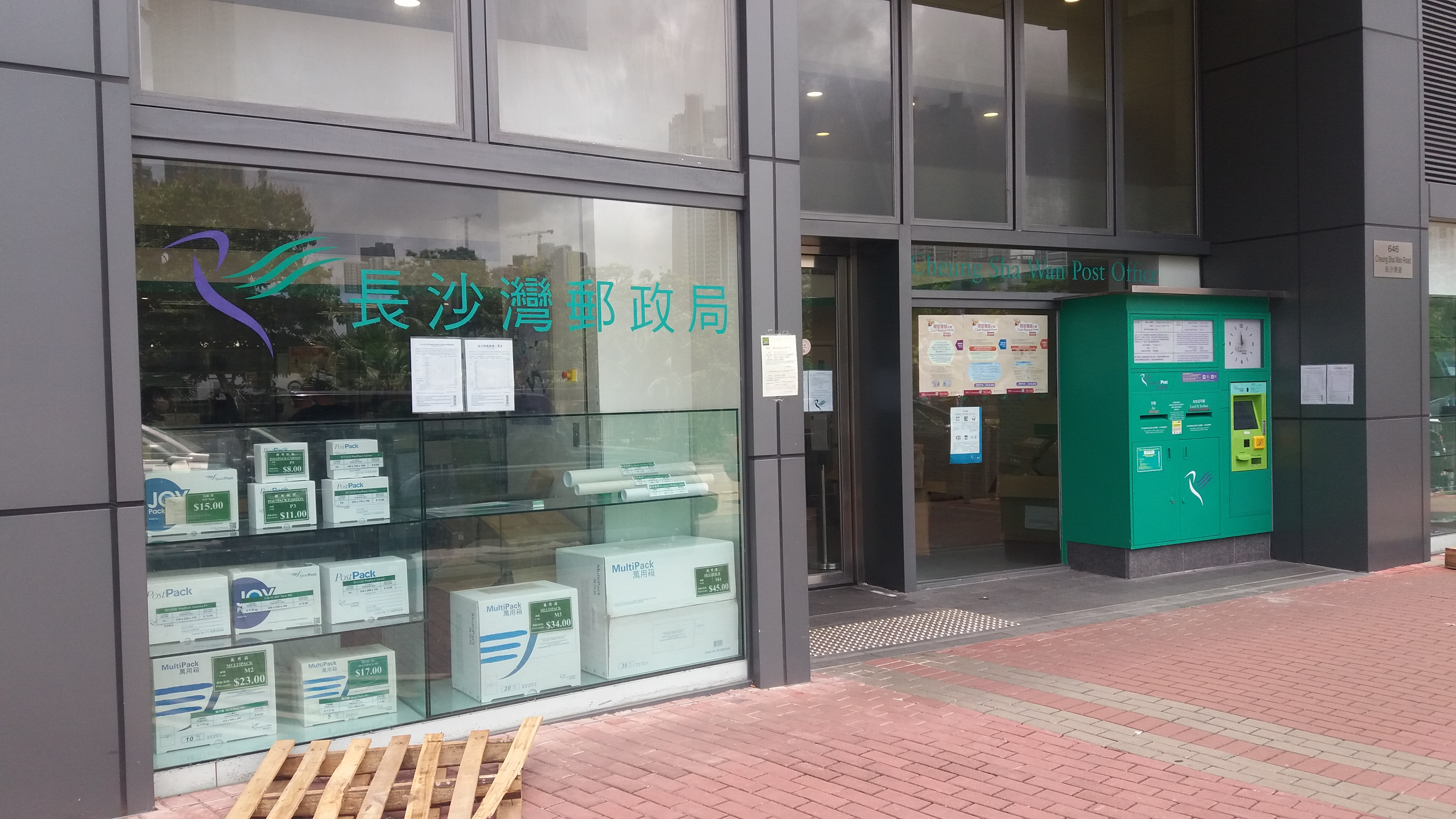 Cheung Sha Wan Post Office (July 2020)